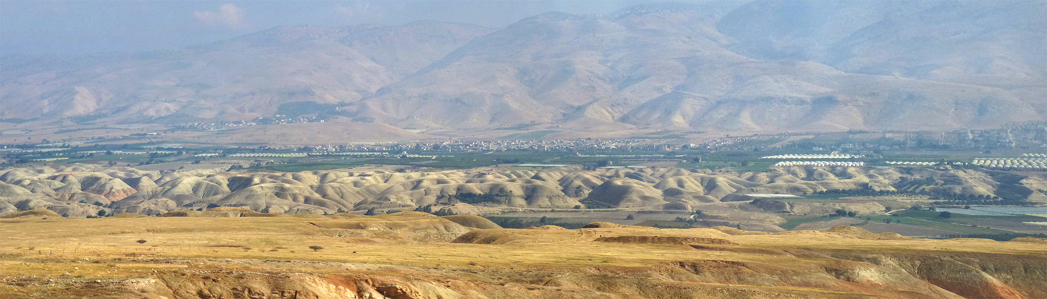 The Jordan Valley, between Beit She'an and Jericho, viewed from the Palestinian side towards the mountains in Jordan.